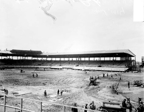 "View of construction taking place at Federal League ballpark Weeghman Park (later renamed Wrigley Field) located at 1060 West Addison Street and bounded by West Waveland Avenue, North Seminary Avenue, North Clark Street, and North Sheffield Avenue in the Lake View community area of Chicago, Illinois. Men are standing on the grounds, and a horse-drawn wagon is visible in the foreground."